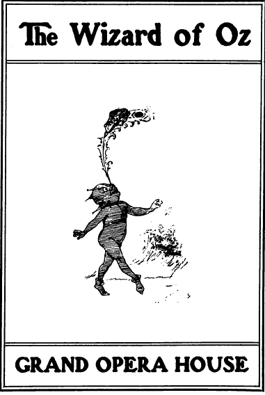 "Cover of prospectus announcing the production of the musical extravaganza The Wizard of Oz, 1902. The illustration is an 'Inland Gnome', drawn by W. W. Denslow in 1894 for The Inland Printer."